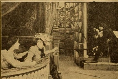 A film still from the 1911 Thanhouser Company film "Stage Struck". Currently the only known surviving still from the lost film.